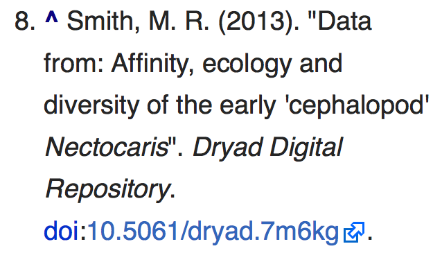 A citation to a Dryad data package on the English Wikipedia's "Evolution of cephalopods" article as of January 17, 2016.